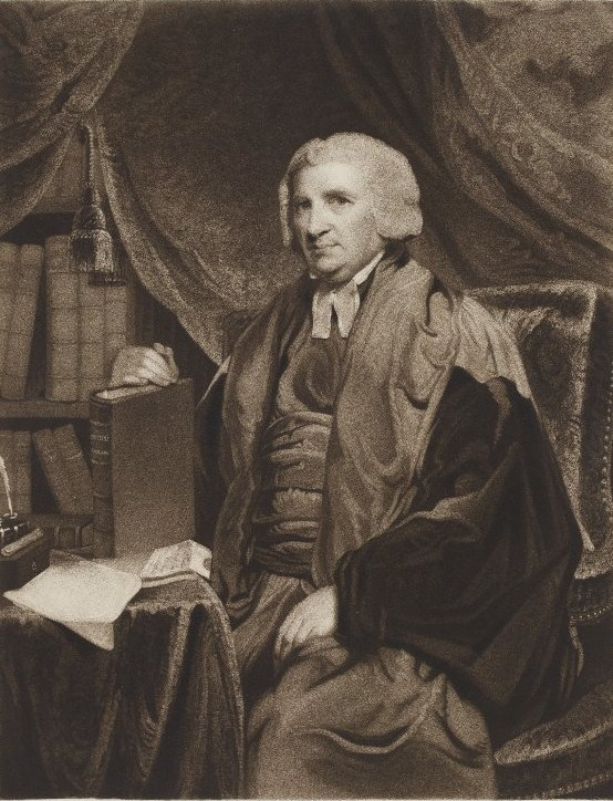 Portrait of John Eveleigh (1748–1814), Provost of Oriel College, Oxford.